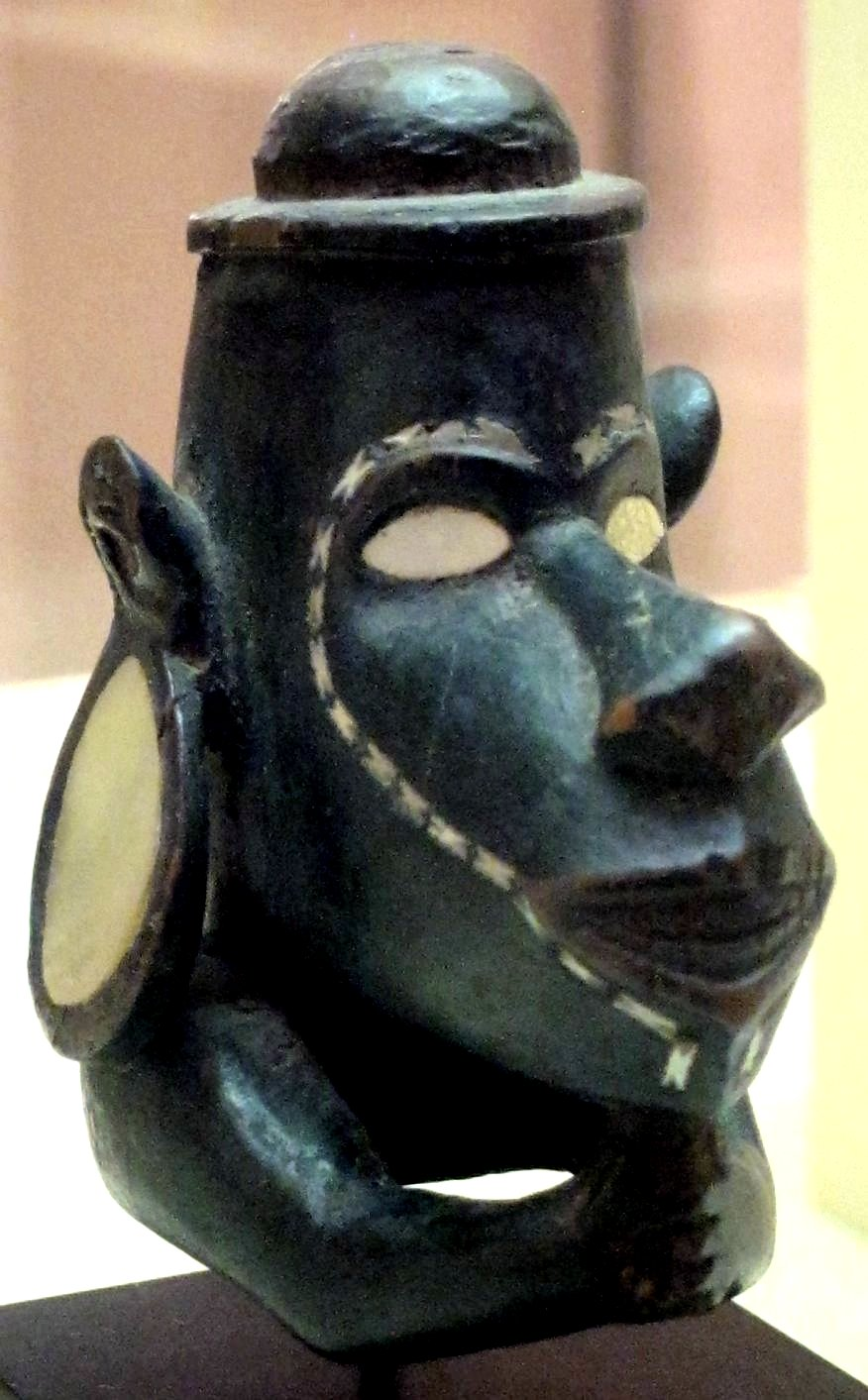 Canoe prow ornament (nguzu-nguzu), Solomon Islands, carved blackened wood with mother of pearl inlay, Honolulu Academy of Arts